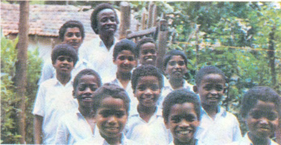 The school for the Sidhis in North Canara district of North Karnataka